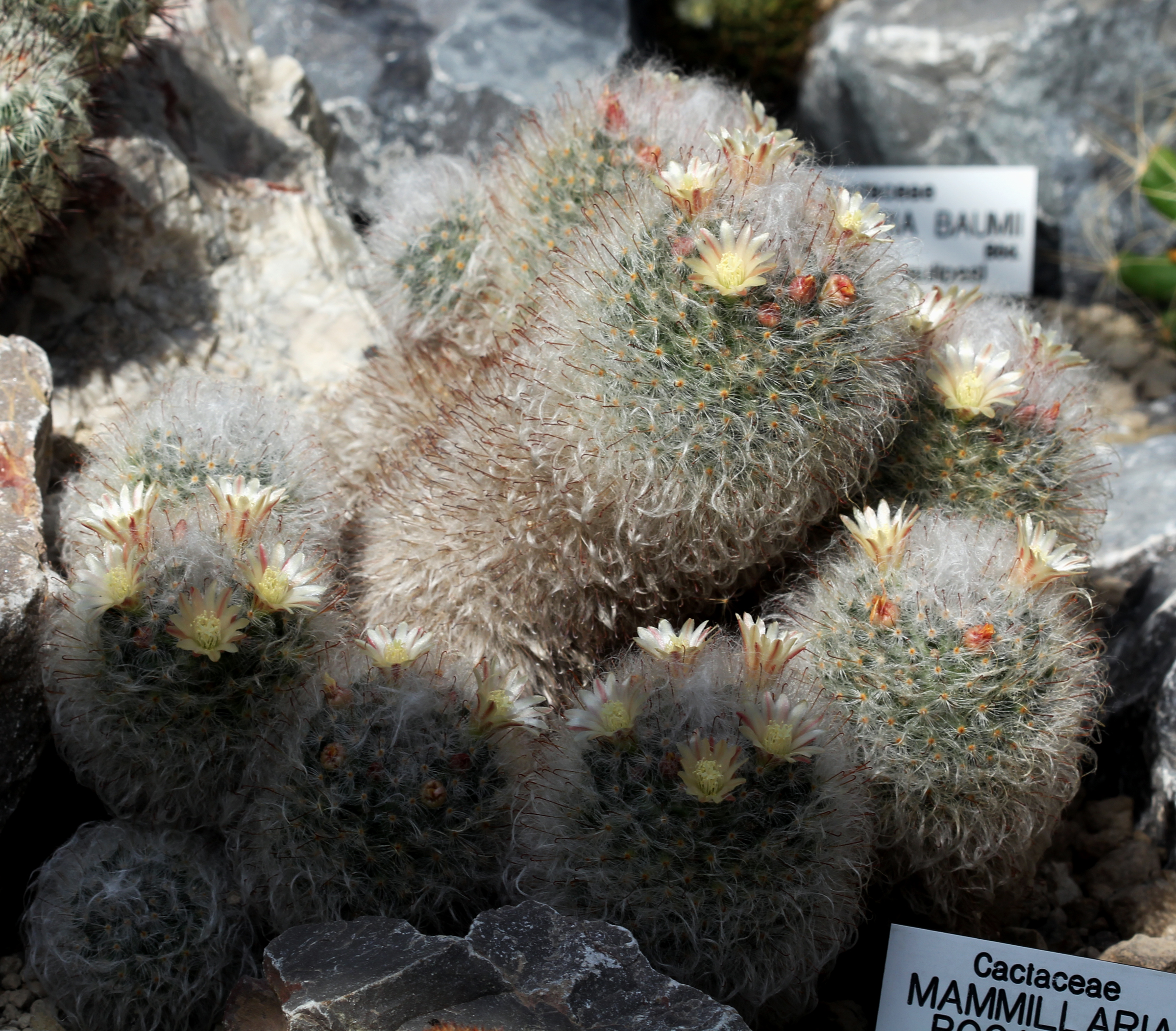 Cactus Mammillaria bocasana, (Mammillaria bocasana), the Botanical Gardens of Charles University, Prague, Czech Republic